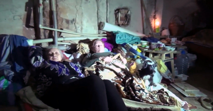 Yasynuvata residents hiding in a makeshift bomb shelter.